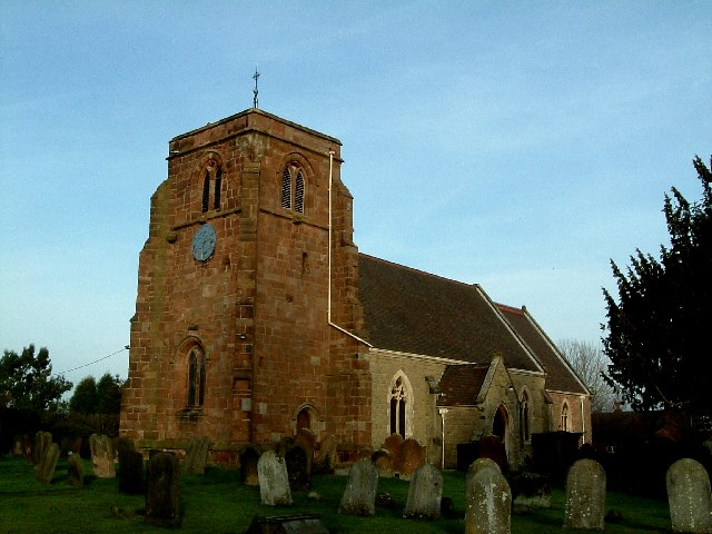 St. Giles, Nether Whitacre. Quite a lot of information about Nether Whitacre here